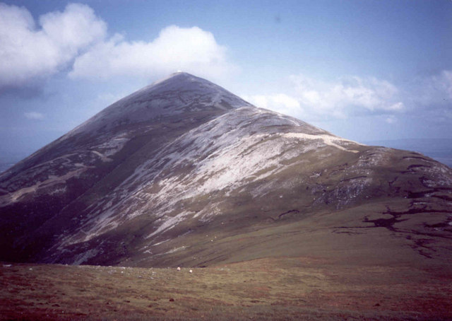 Croagh Patrick, the saddle on the western flanks This western route proved to be a much easier and more rewarding descent!